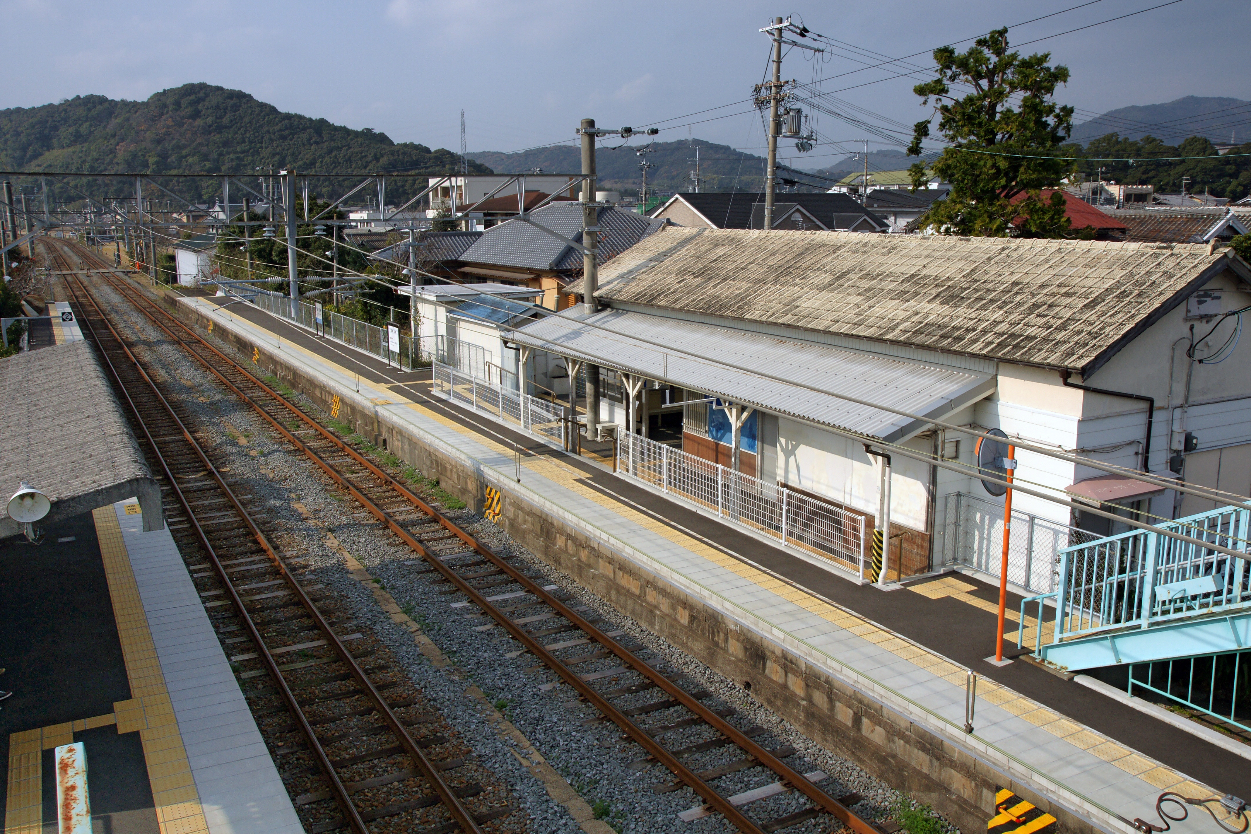 Dojoji Station, Gobo, Wakayama prefecture, Japan